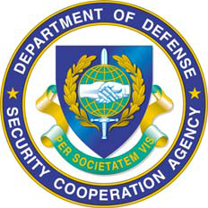 Seal of the Defense Security Cooperation Agency (DSCA), a defense agency of the U.S. Department of Defense